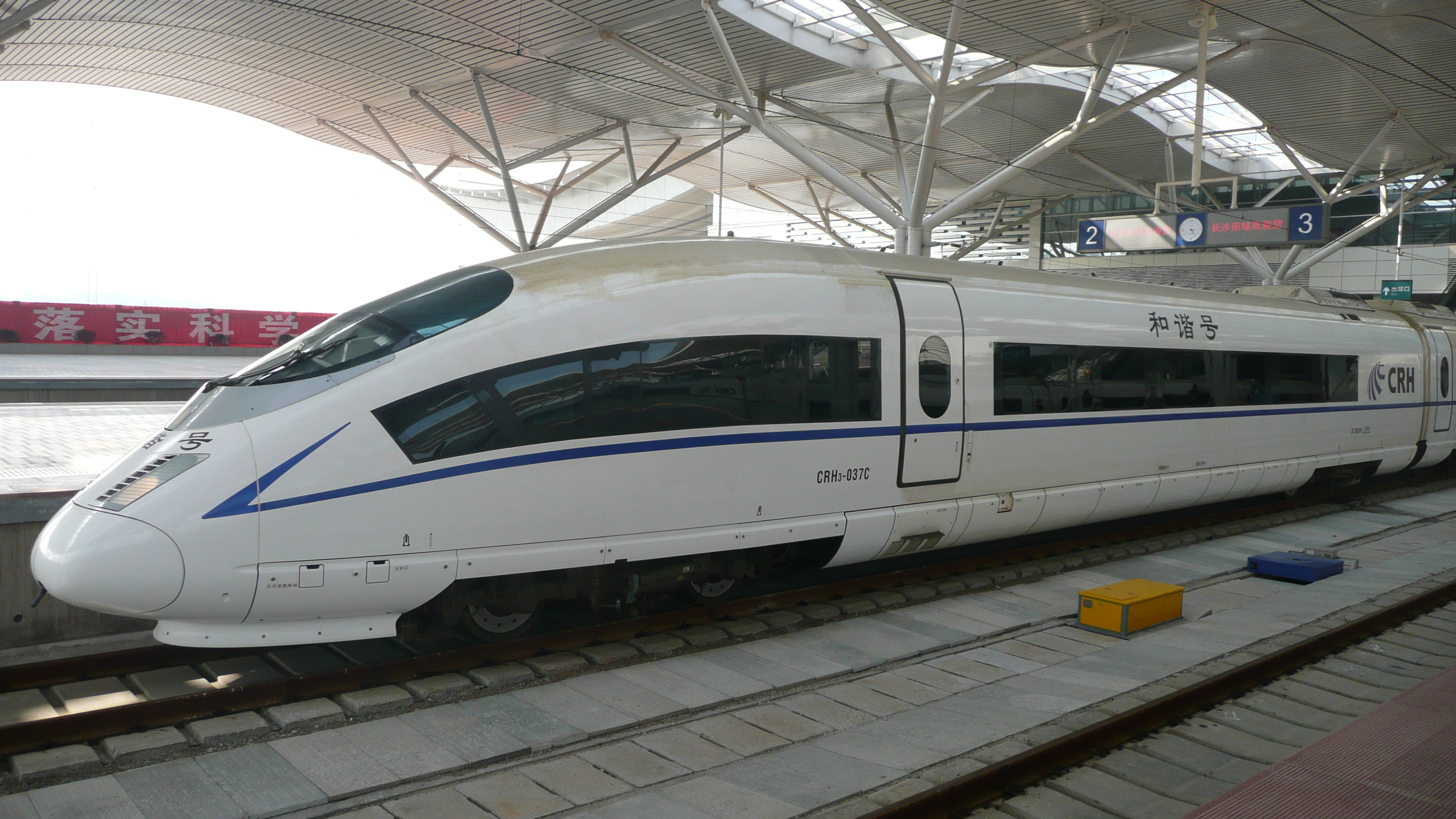 CRH3 in Changsha South Railway Station